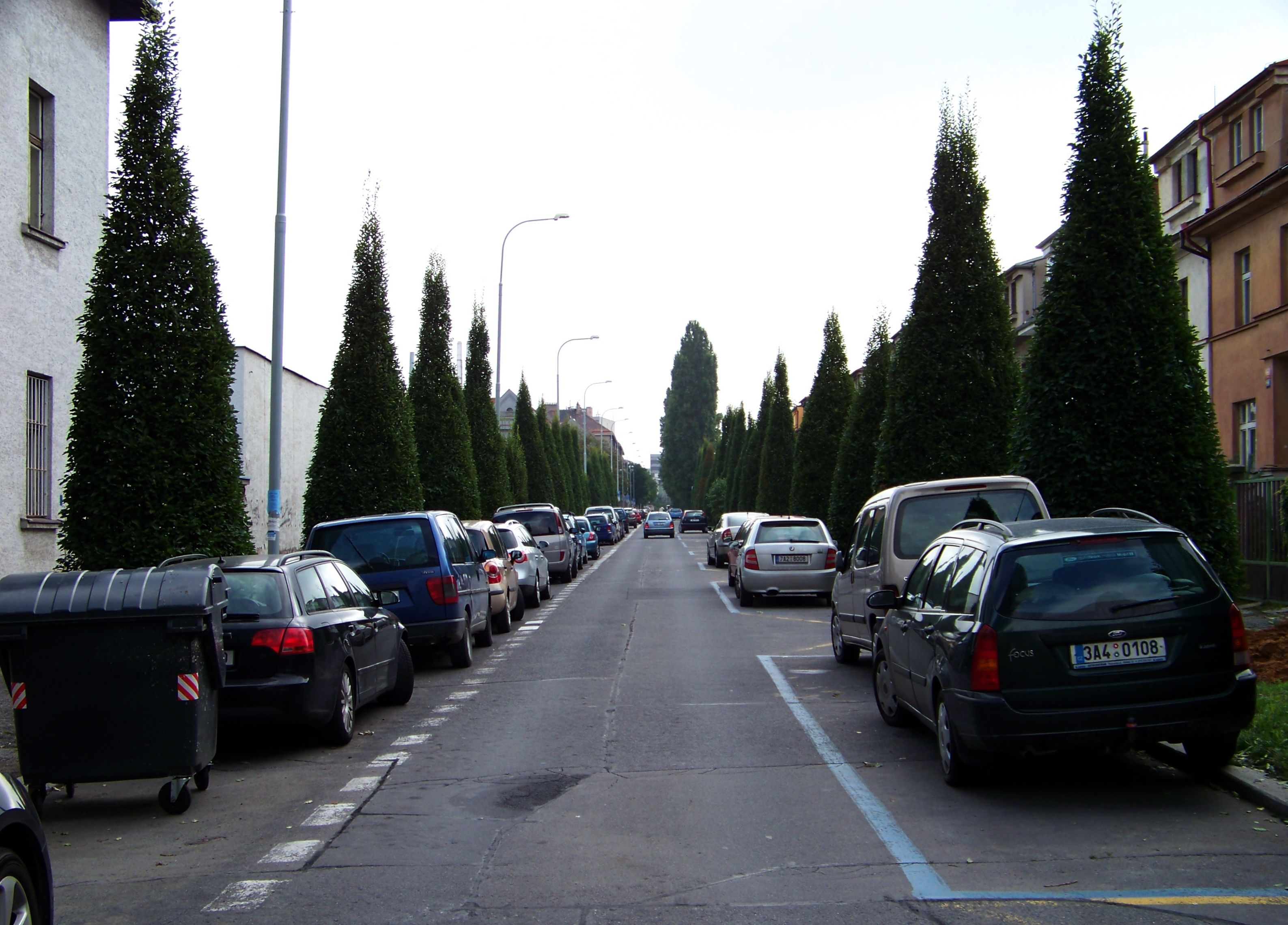 Prague-Žižkov, the Czech Republic. Jeseniova street.